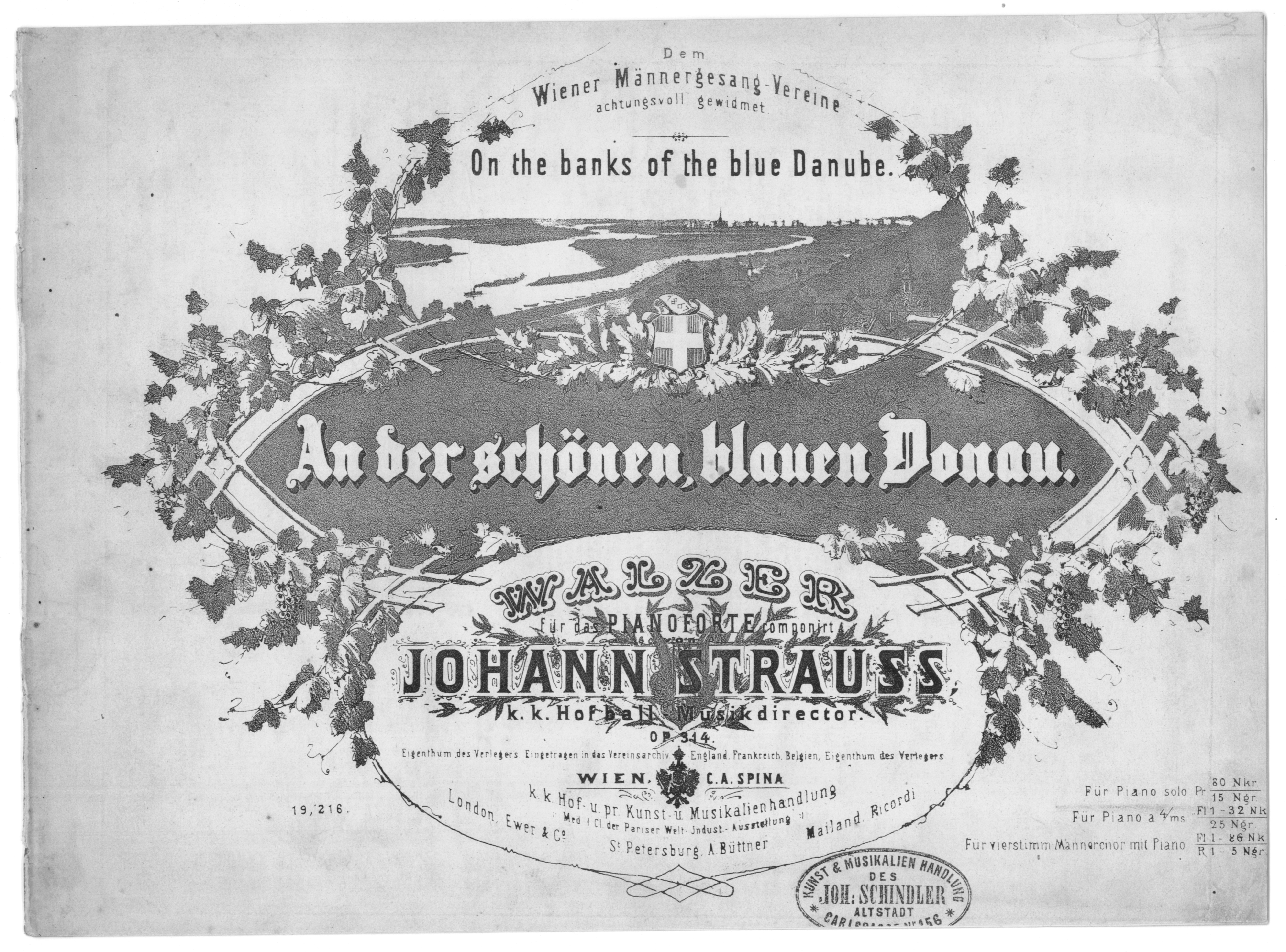 Johann Strauss II. The Blue Danube, one of the oldest ed. by Carl Anton Spina